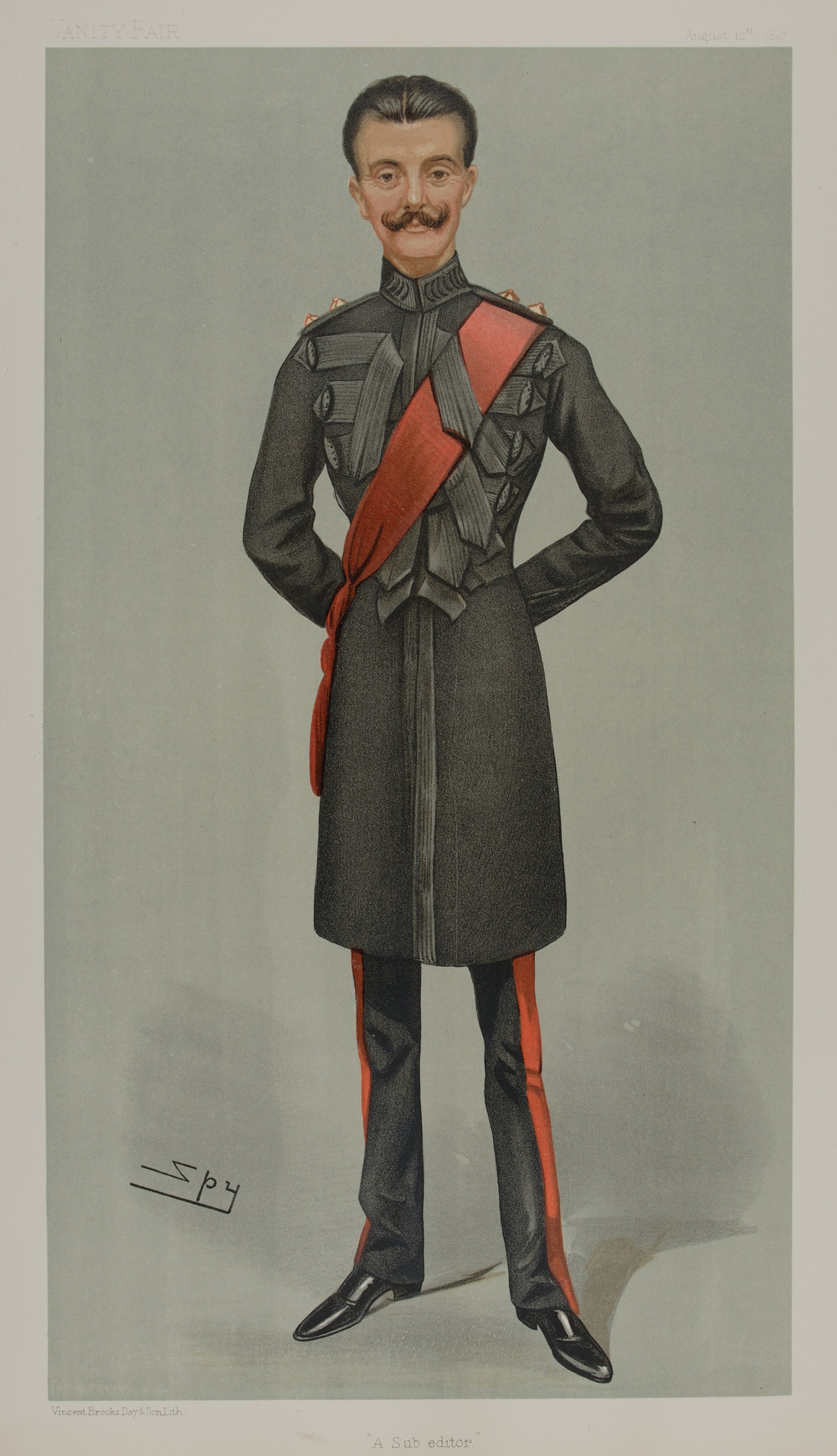 Men of the Day No. 687: Caricature of Captain George Colborne Nugent (1864-1915). Later fought in the Second Boer War and was killed in action in France in World War I. Brief biography : Caption read "A Sub editor".